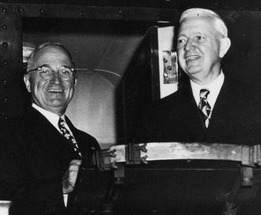 President Harry S. Truman (center) meets with Chicago Mayor Martin Kennelly (right) and another man on the rear platform of the presidential train when it was in Chicago, Illinois.